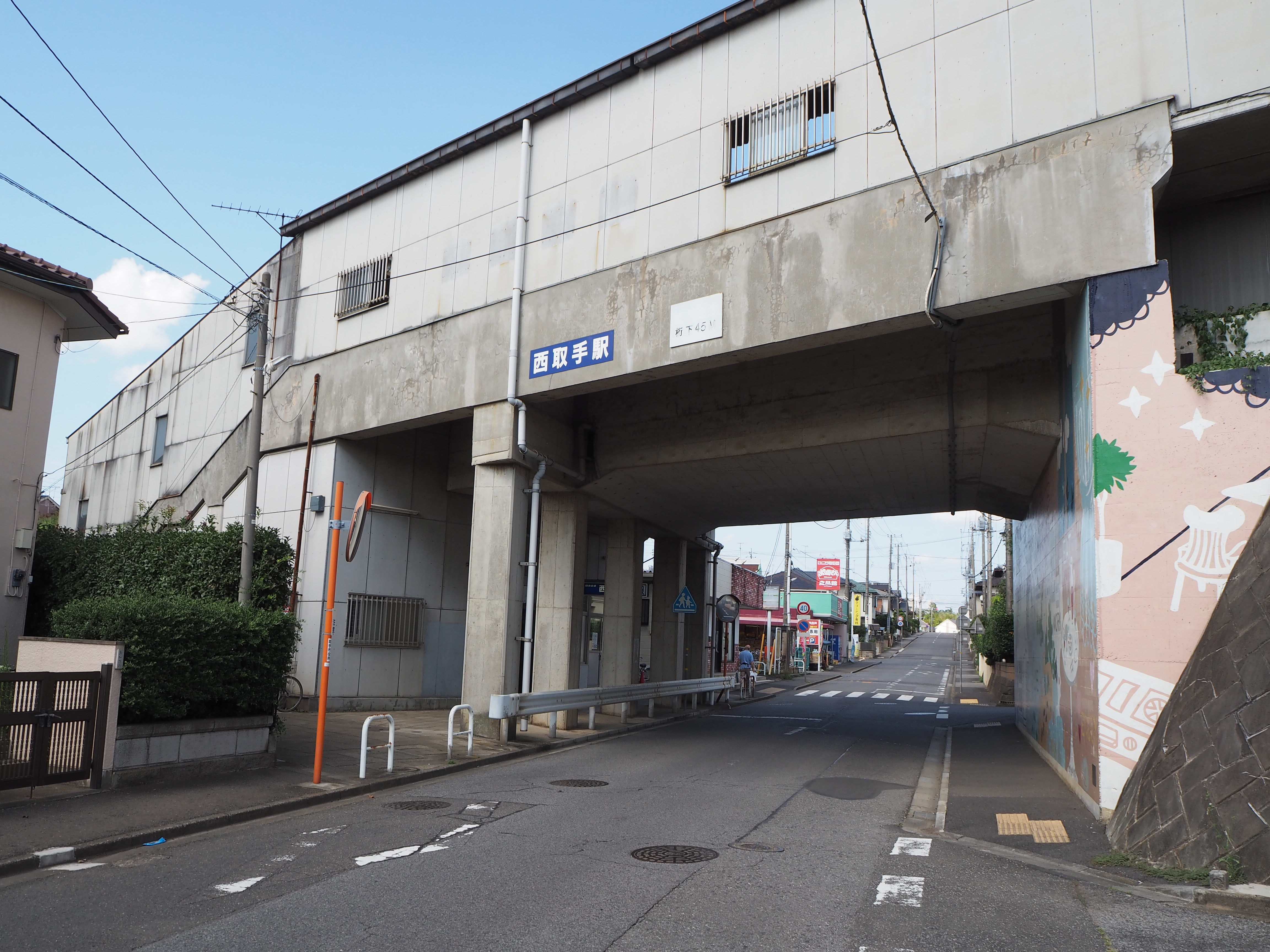 Nishi-Toride Station